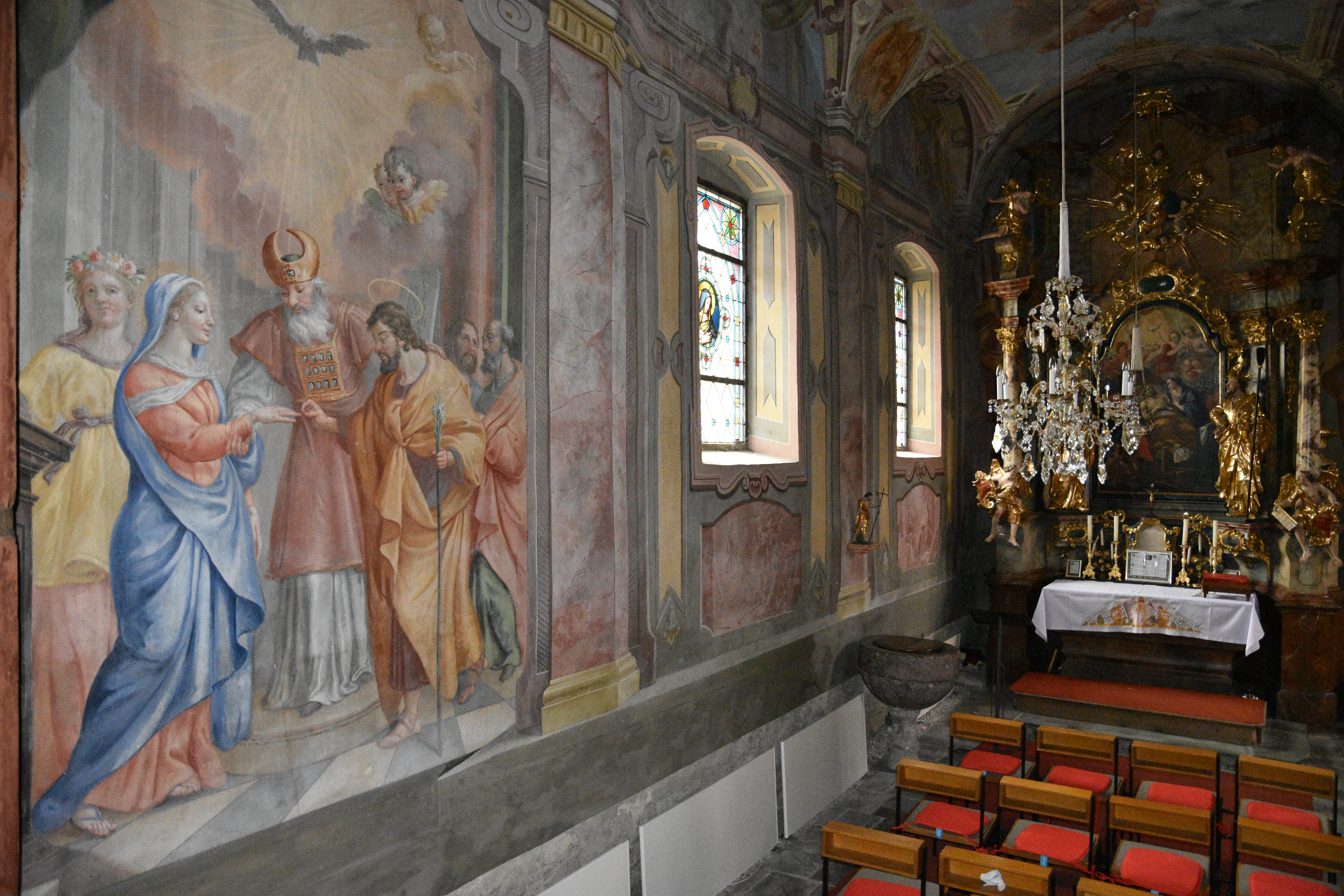 Chapel Kapelle hl. Joseph Pfarrkirche Mautern in Steiermark